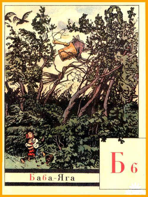 «Baba Yaga», letter «B» from ABC-book, picture by Alexandre Benois